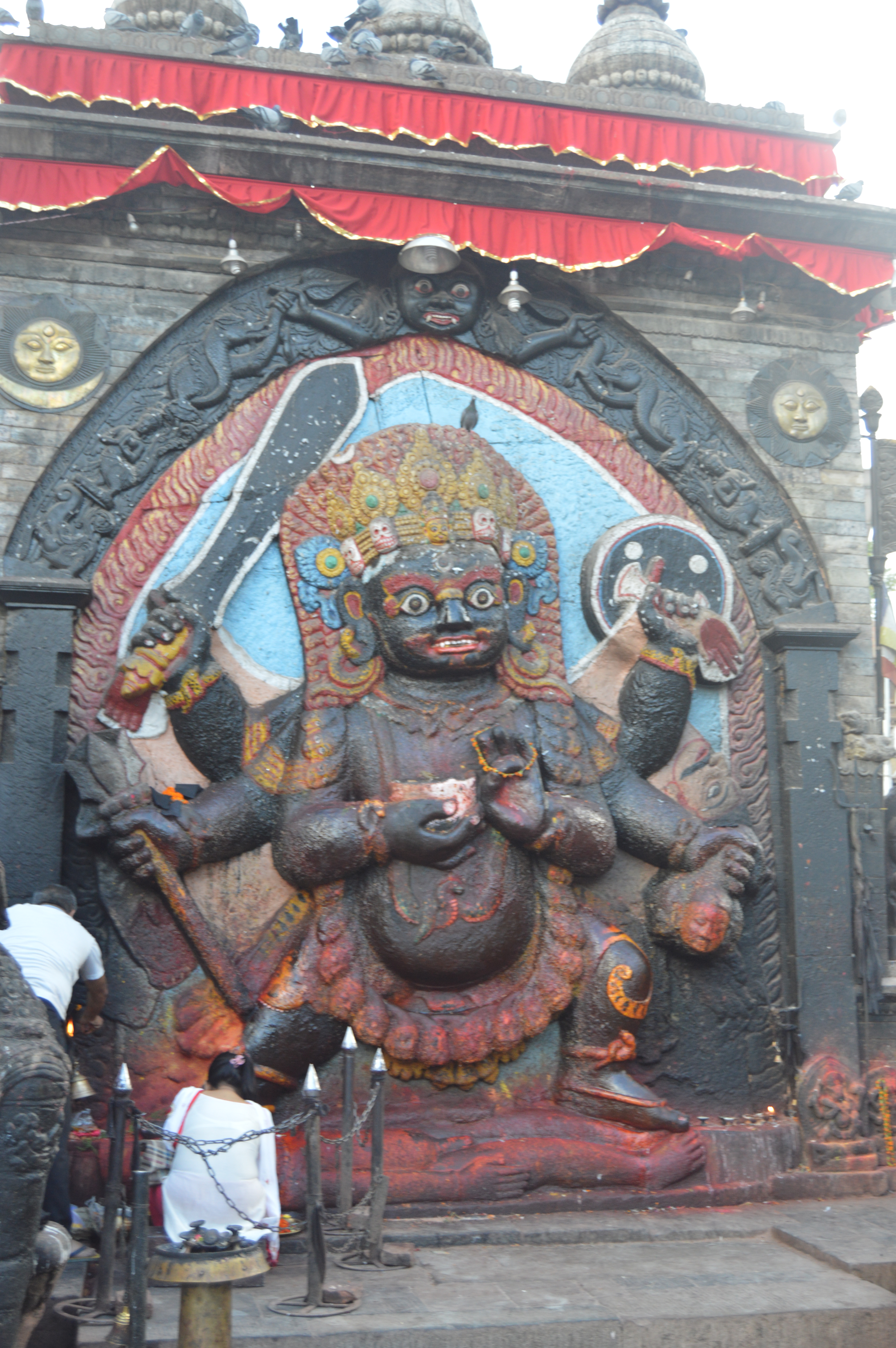 Kalbhairav at Hanuman Dhoka Durbar Square